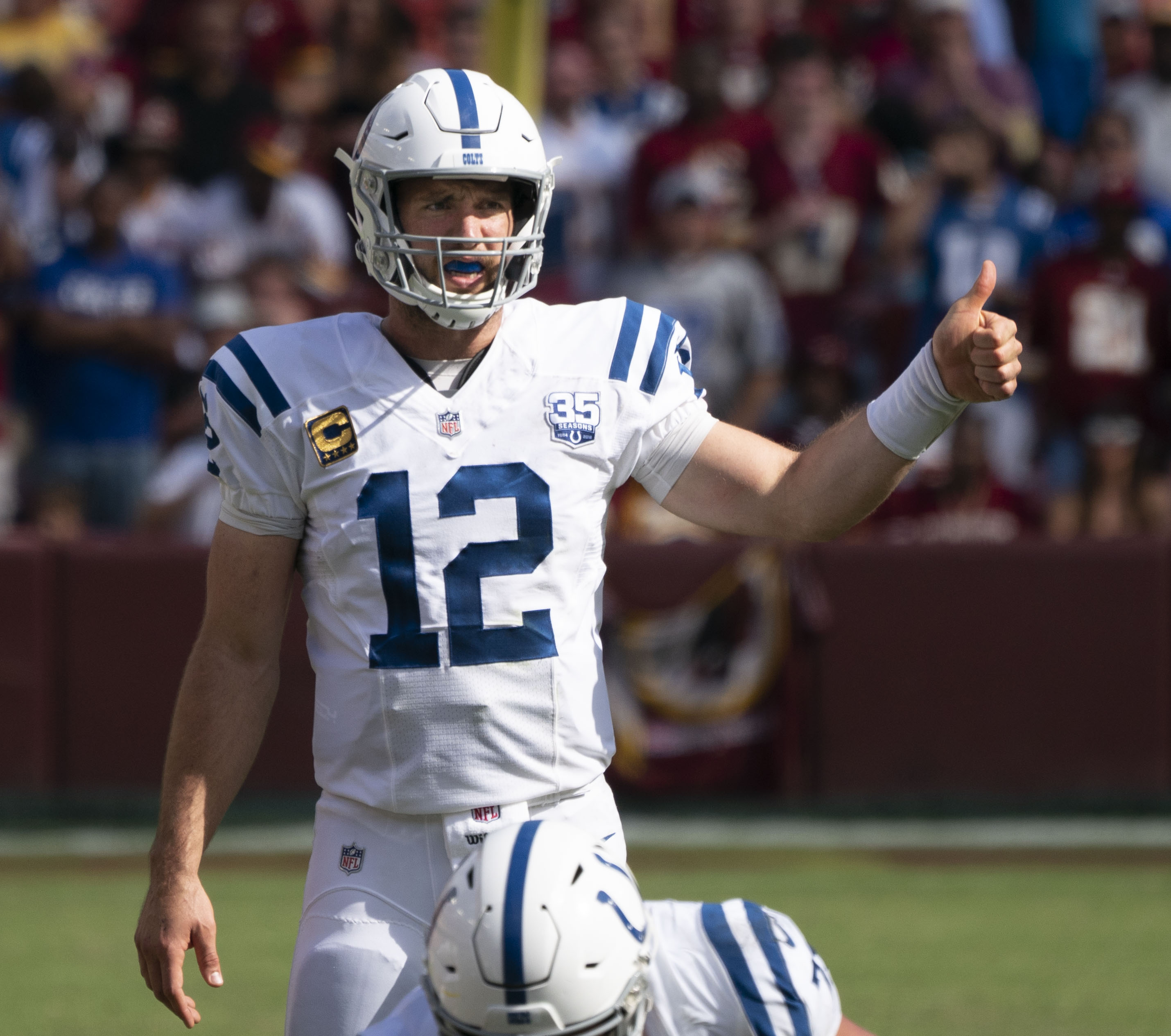 Andrew Luck of the Indianapolis Colts during a game against the Washington Redskins at FedExField on September 16, 2018 in Landover, Maryland.